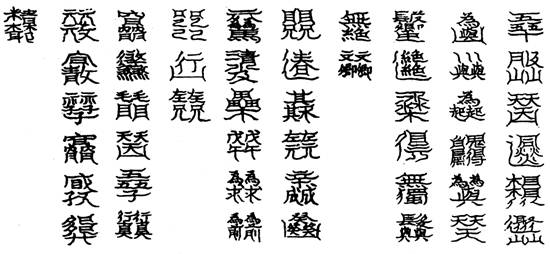 Talismans in Taipingjing